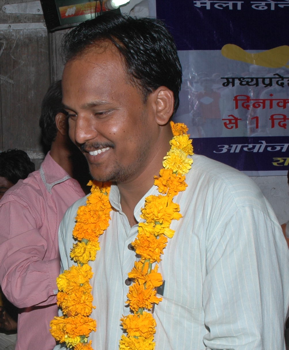 Social Worker